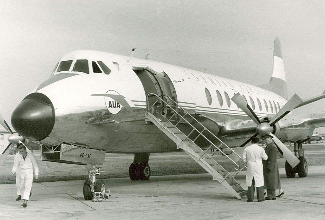 OE-LAF, a Vickers Viscount of Austrian Airlines. This one crashed in 1960 as Austrian Airlines Flight 901